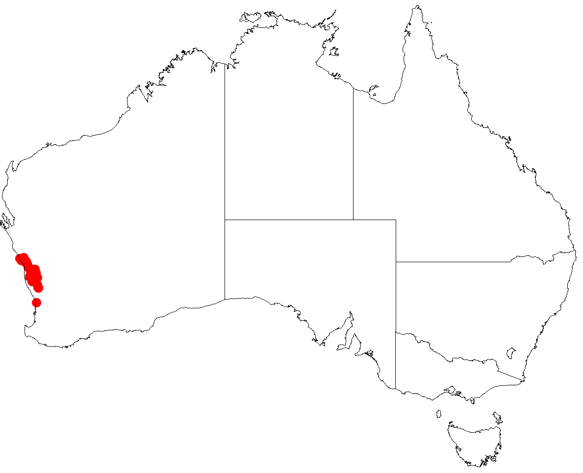 Calectasia hispida occurrence data from Australasian Virtual Herbarium downloaded 01 July 2018